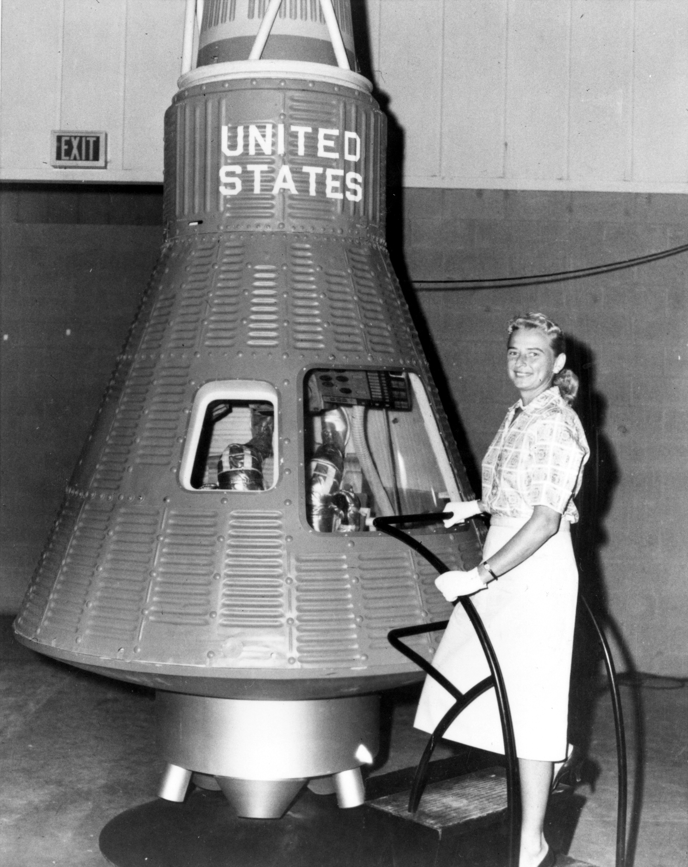 Jerrie Cobb poses next to a Mercury spaceship capsule. Although she never flew in space, Cobb, along with twenty-four other women, underwent physical tests similar to those taken by the Mercury astronauts with the belief that she might become an astronaut trainee. All the women who participated in the program, known as First Lady Astronaut Trainees, were skilled pilots. Dr. Randy Lovelace, a NASA scientist who had conducted the official Mercury program physicals, administered the tests at his private clinic without official NASA sanction. Cobb passed all the training exercises, ranking in the top 2% of all astronaut candidates of both genders. While she was sworn in as a consultant to Administrator James Webb on the issue of women in space, mounting political pressure and internal opposition lead NASA to restrict its official astronaut training program to men despite campaigning by the thirteen finalists of the FLAT program. After three years, Cobb left NASA for the jungles of the Amazon, where she has spent four decades as a solo pilot delivering food, medicine, and other aid to the indigenous people. She has received the Amelia Earhart Medal, the Harmon Trophy, the Pioneer Woman Award, the Bishop Wright Air Industry Award, and many other decorations for her tireless years of humanitarian service.